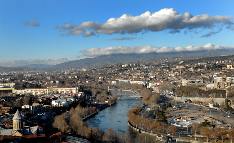 Panoramic view of Tbilisi